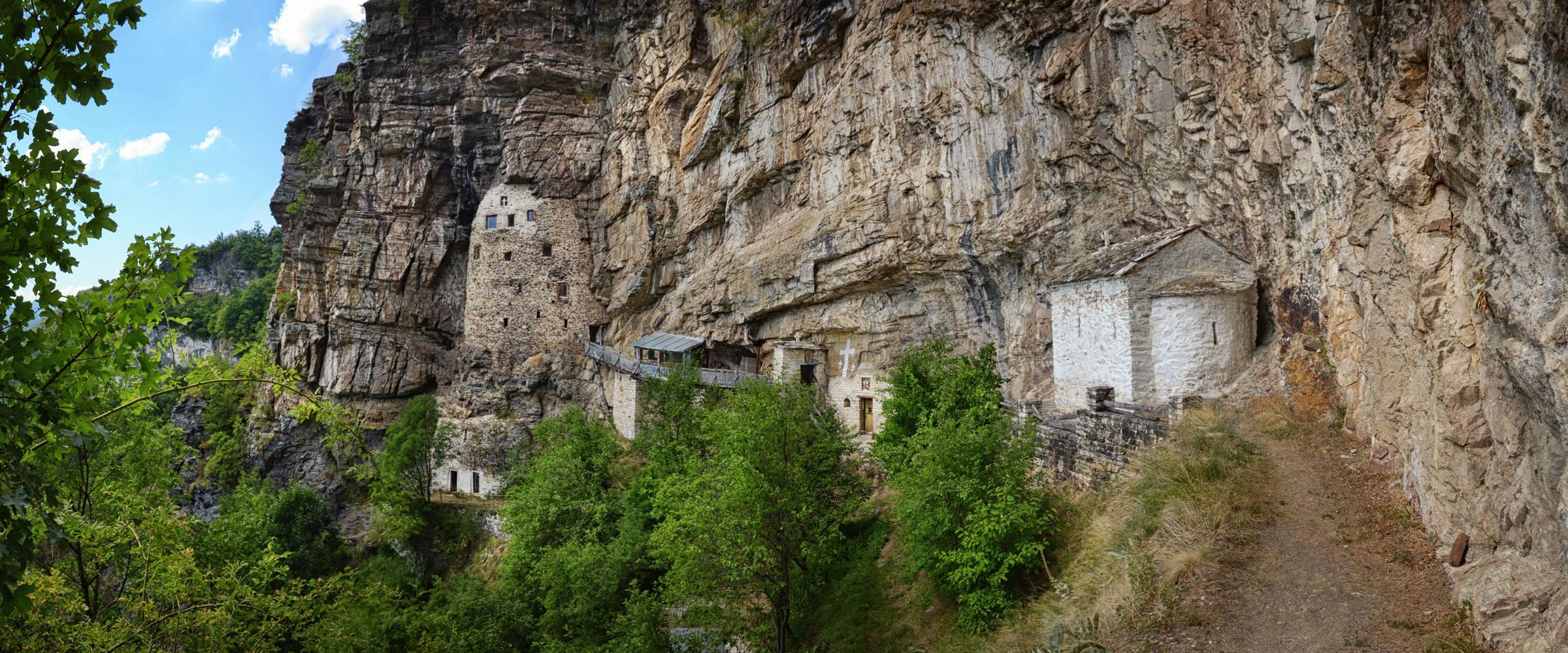 Upper Hermitage of Saint Sava near Studenica monasterySrpski (latinica): Ulaz u gornju isposnicu Sv. Save